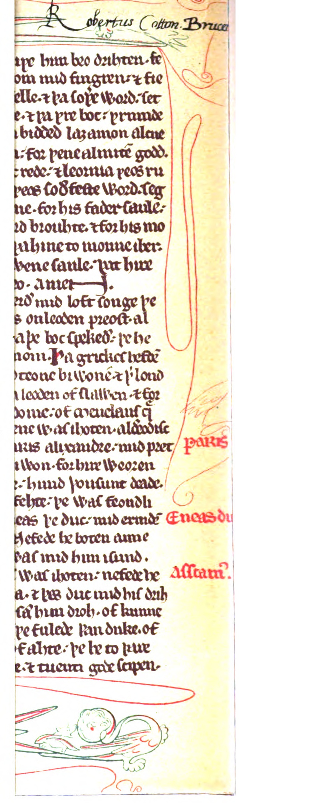 Foto of the page "Layamonts Brut" from Cotton's library